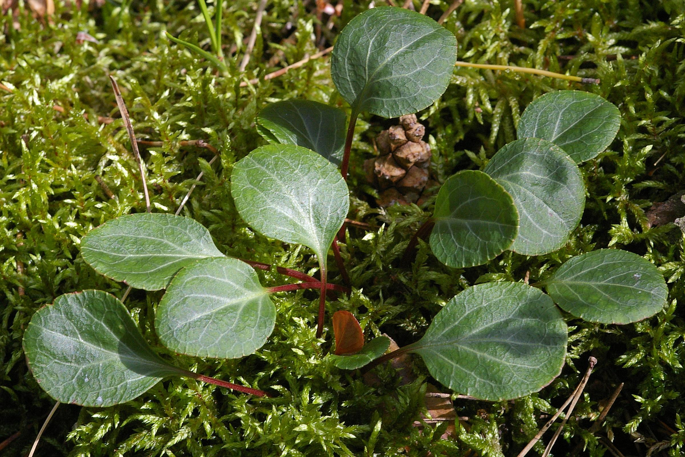 Leaves of Pyrola chlorantha.